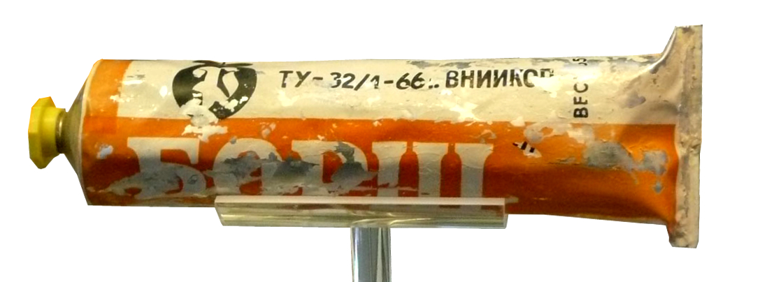 Russian Borscht soup in tube, consumed by cosmonauts in space. Item on display in Washington Air and Space Museum, The Mall, Washington DC